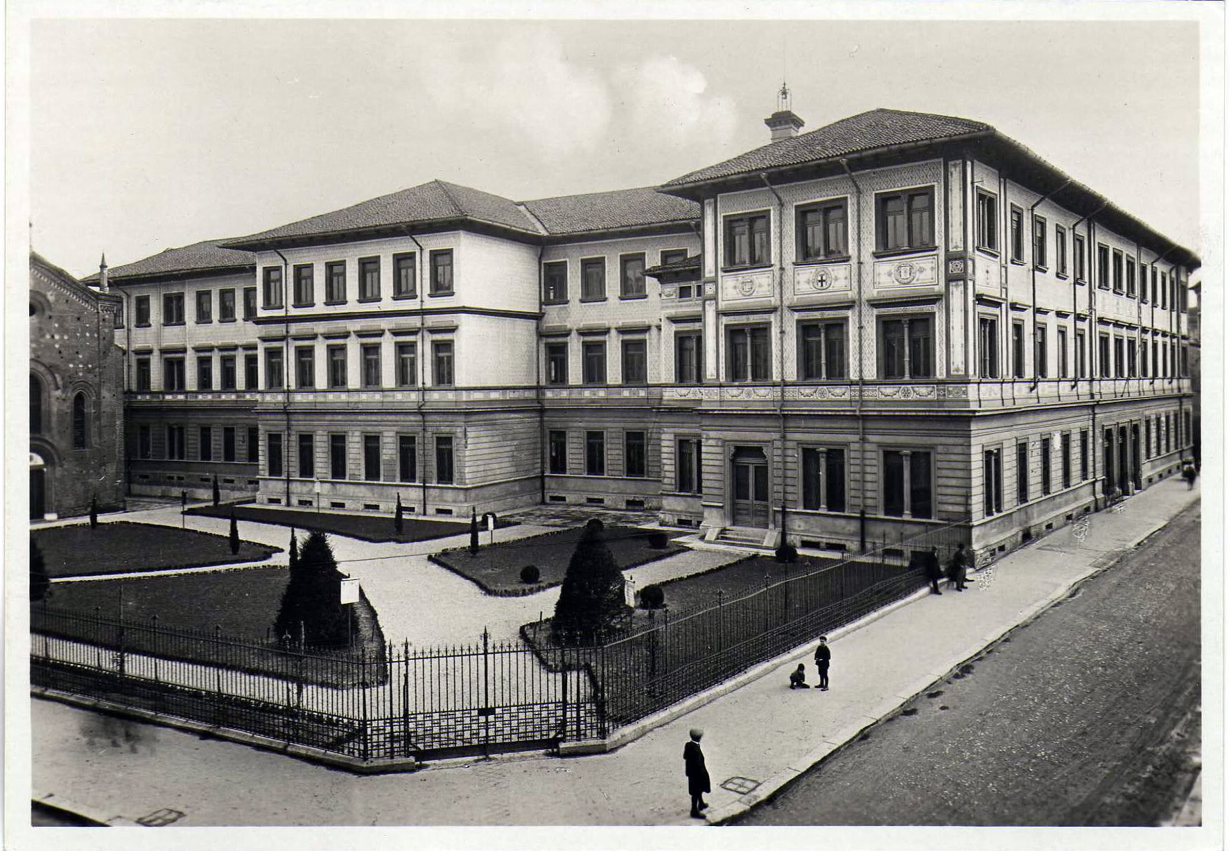 Regio Liceo Ginnasio Manzoni Milan 20s